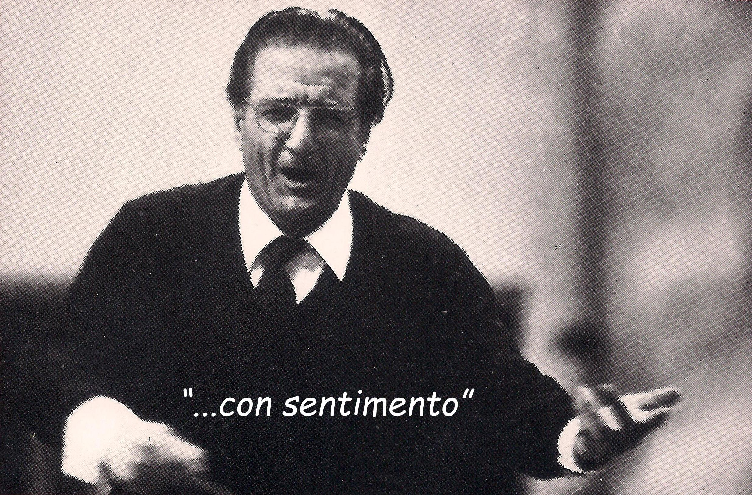 Ino Savini is rehearsing "La Fanciulla del West" by G. Puccini at Operà de Lyon (F), 1962-01-30